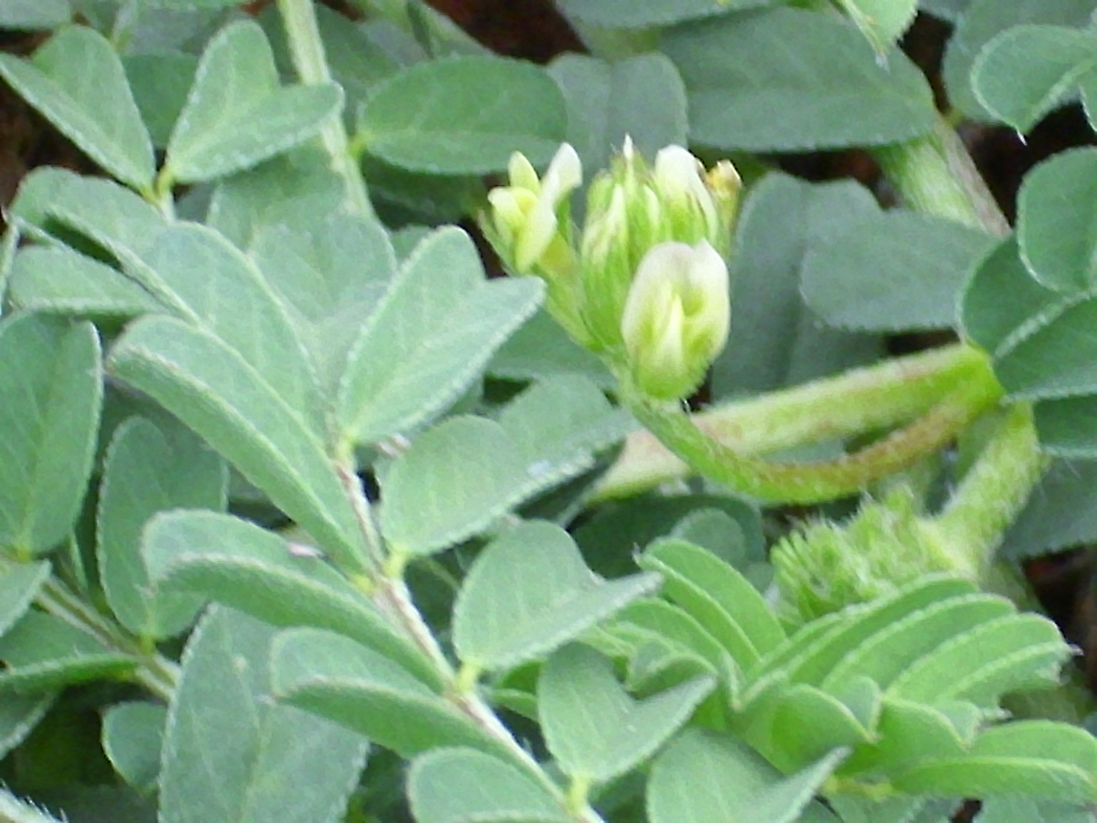 Astragalus edulis flower close up, Campo de Calatrava, Spain